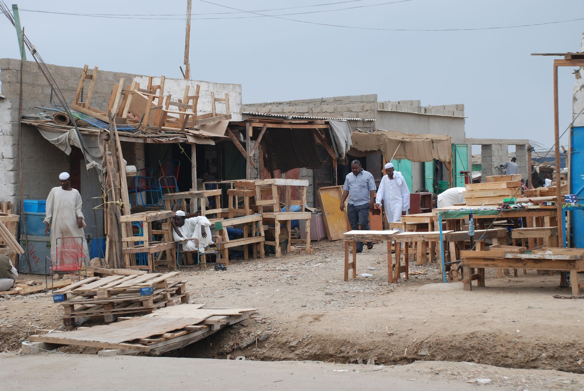 Port Sudan, Deim Arab quarter west of town center